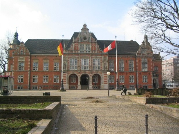 Town hall of Hamburg-Harburg.